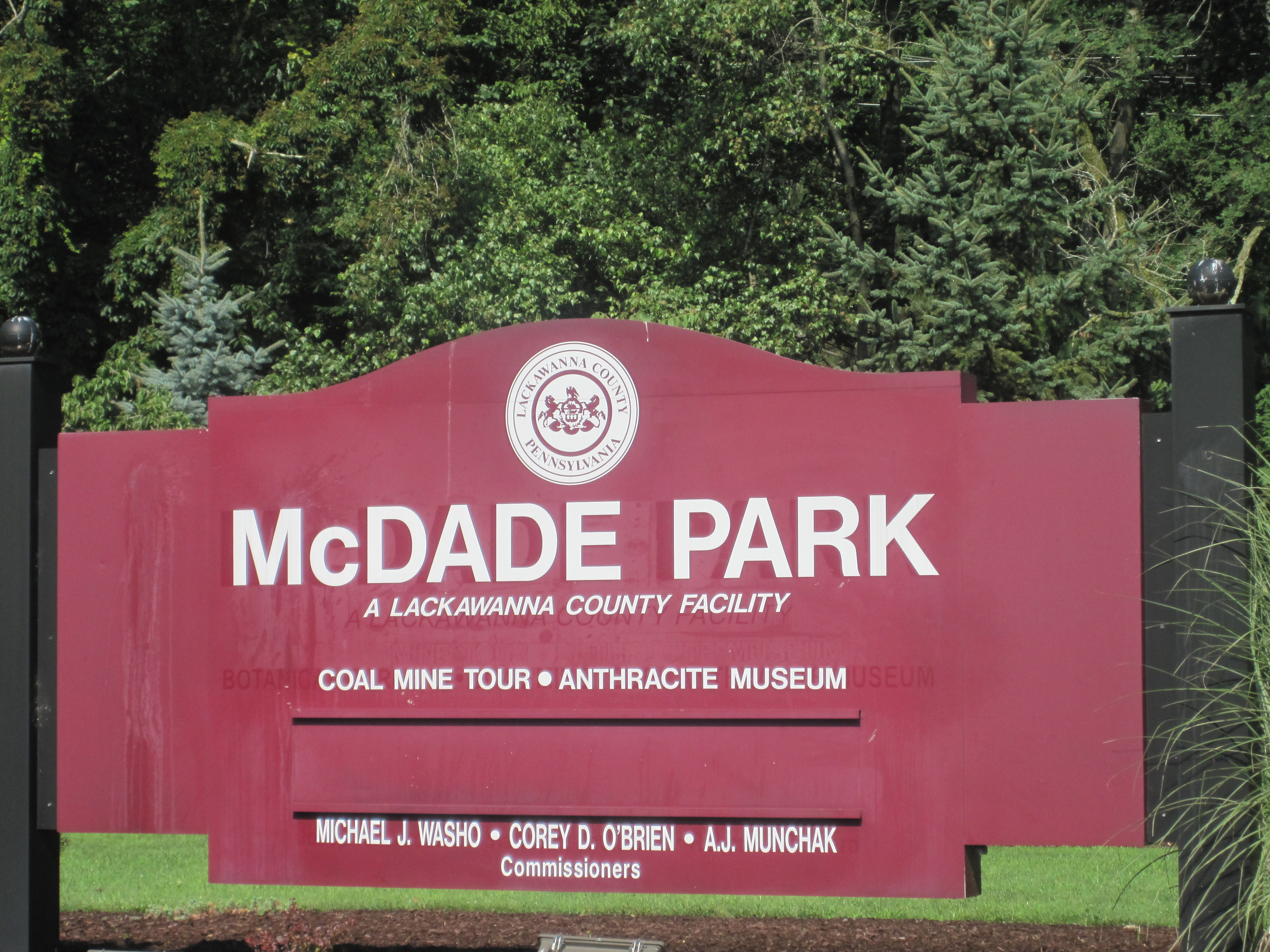 Inscription of quotation by Calvin Coolidge in Scranton, PA